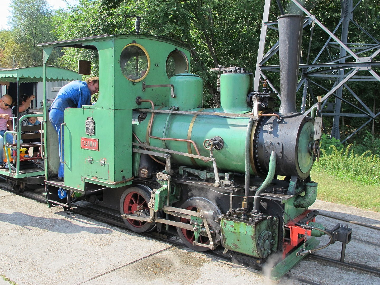 0-4-0 T locomotive Decauville (subcontracted to Borsig in 1911) Tabamar, Railway Chanteraines (France) September 16, 2012.